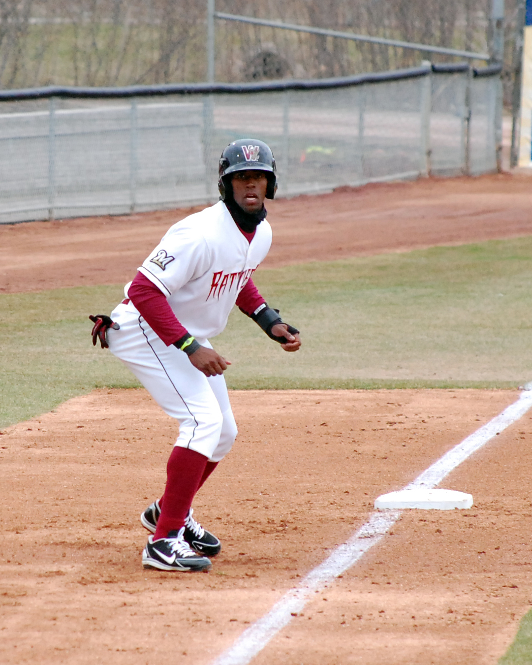 Victor Roache playing for the Wisconsin Timber Rattlers at Fox Cities Stadium in Appleton, Wisconsin in 2013.